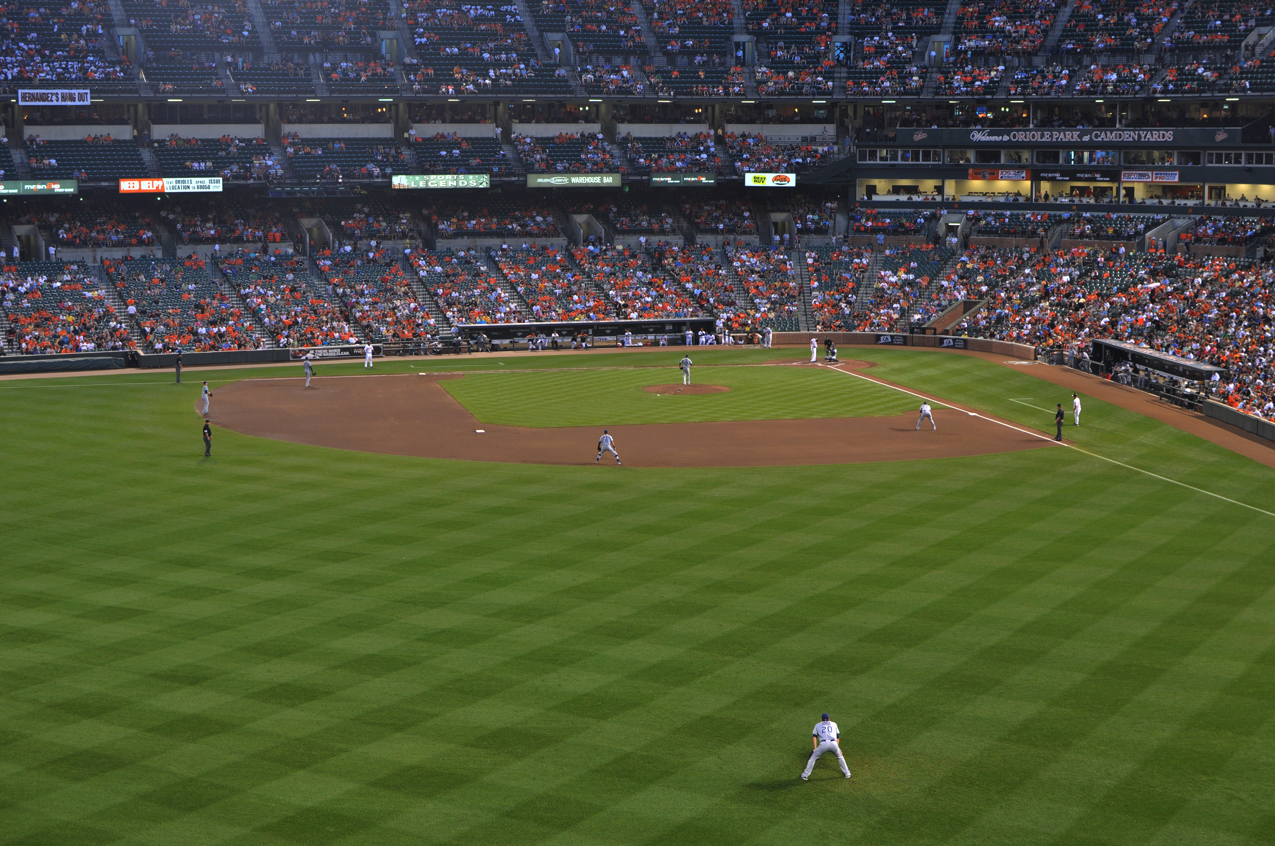 A shot from the all-you-can-eat seats @ Camden Yards.